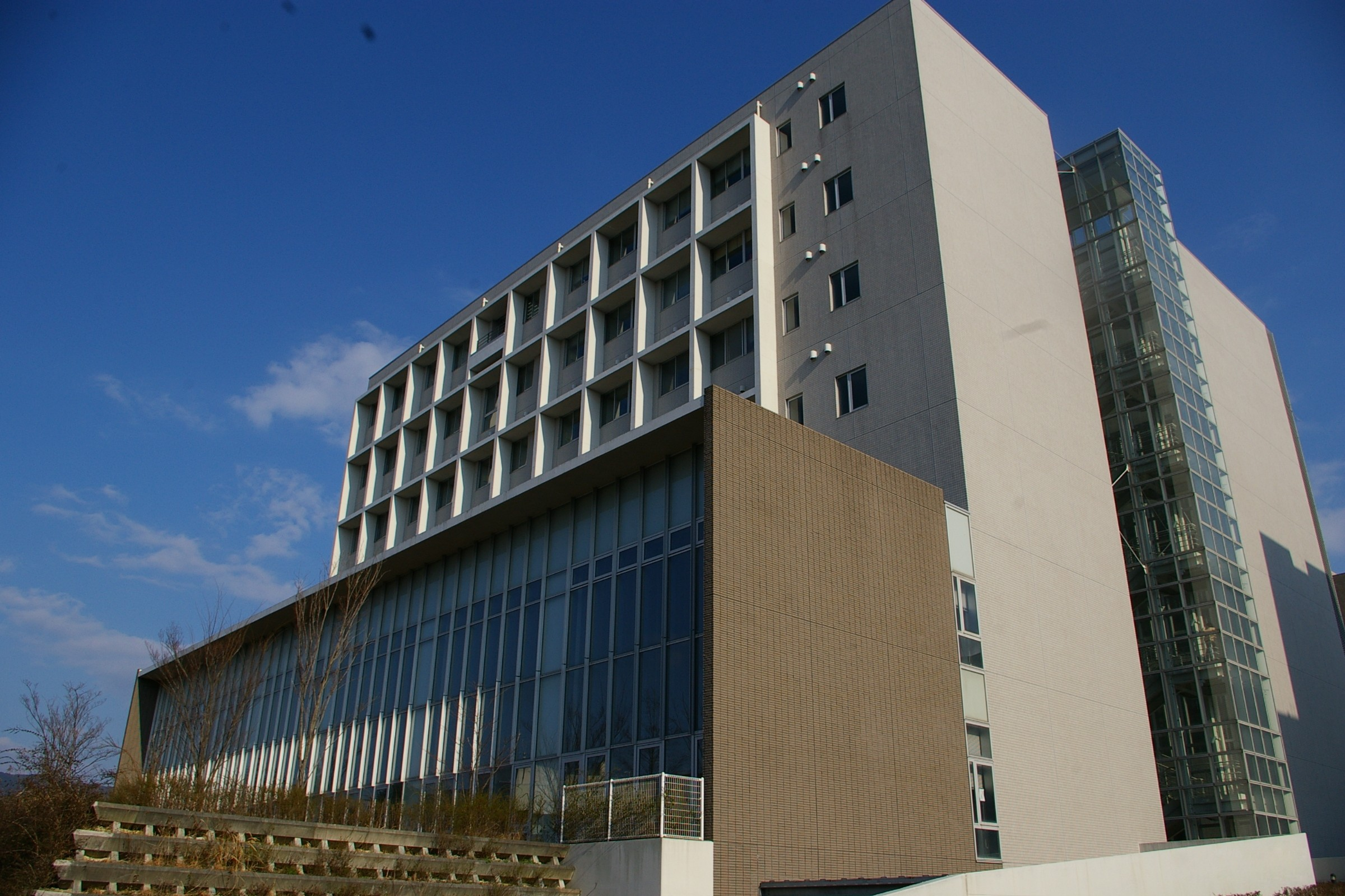 Fukuoka